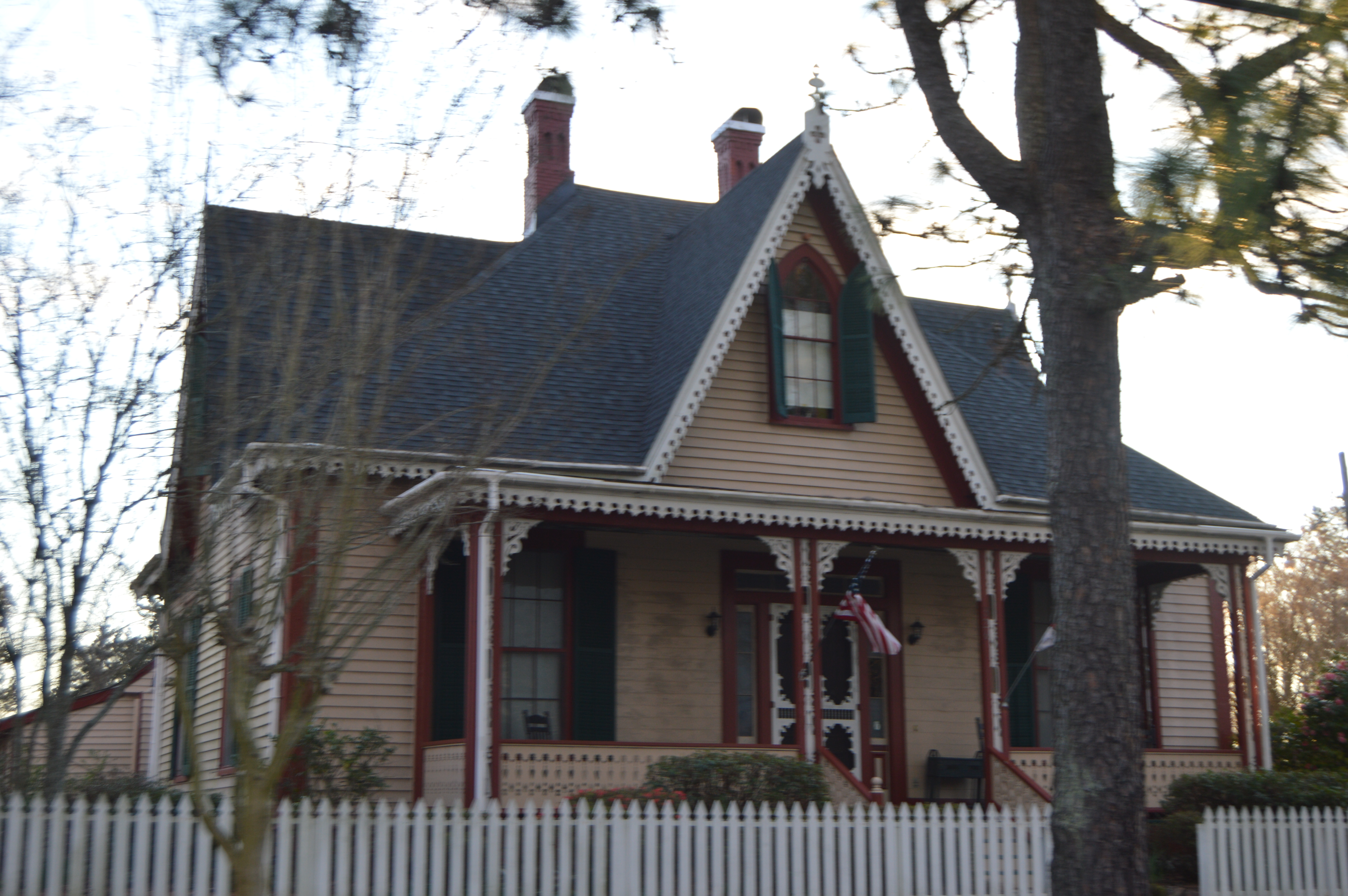 Front of the Perry-Spruill House, located at 326 Washington Street in Plymouth, North Carolina, United States. Built in 1884, it is listed on the National Register of Historic Places.